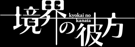 Beyond the Boundary anime logo